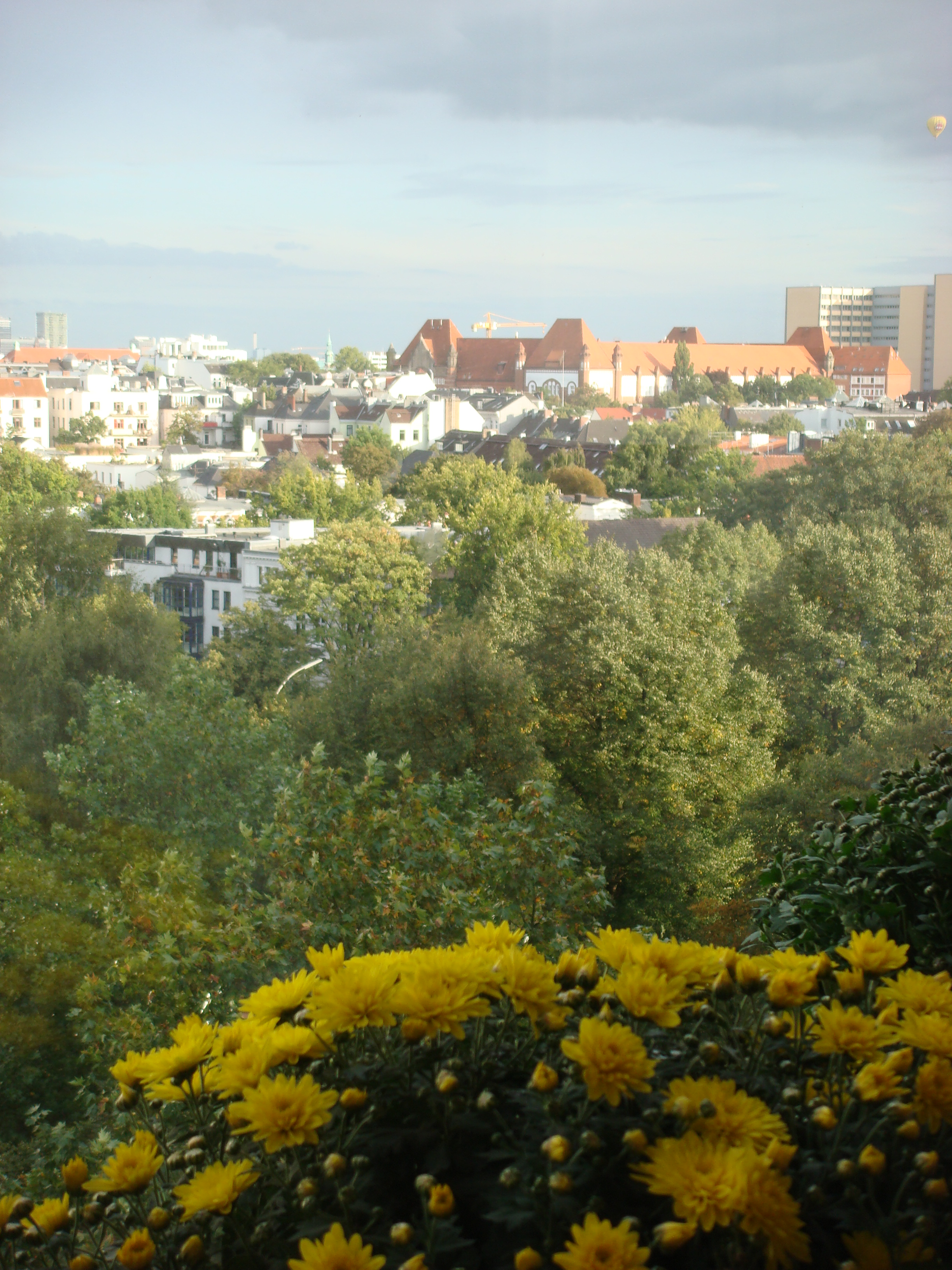 View from Germany`s eldest ensemble of skyscrapers: The Grindel - Quarter in Hamburg